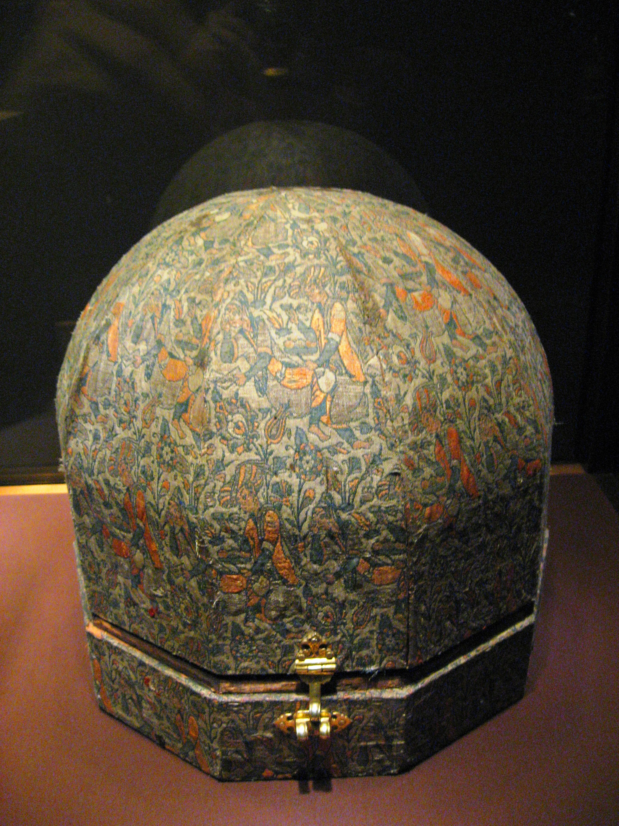 Case for the Crown of István Bocskay Turkish c. 1605 Persian fabric, around 1600 silk over wood, gilded silver SK Inv. No. XIV 184